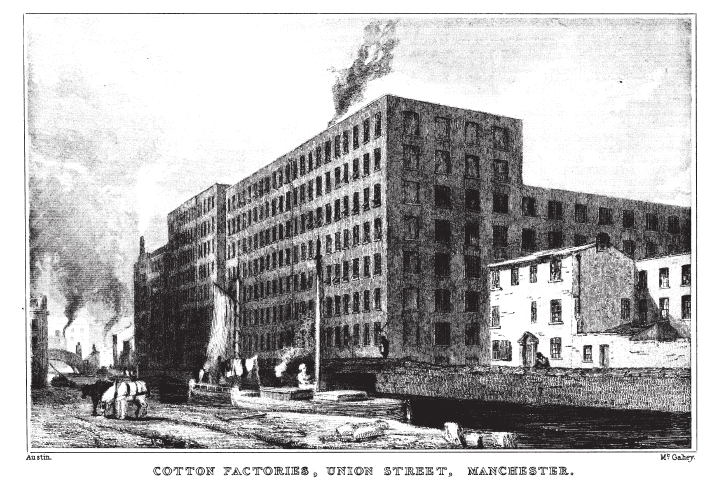 A & G Murray Mills, Redhill St,_Manchester from over the Rochdale Canal: Capture from Baines 1835, Illustrations from the History of the Cotton Manufacture in Great Britain .Pub H. Fisher, R. Fisher, and P. Jackson